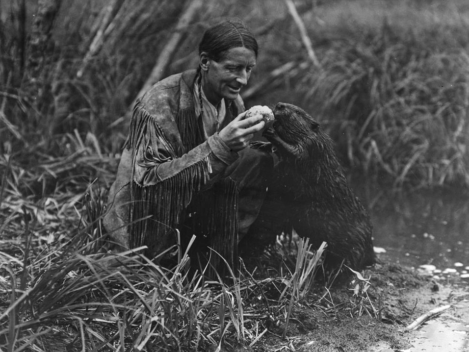 Title / Titre : Grey Owl feeding a beaver a jelly roll / Grey Owl donnant un roulé à la gelée Creator(s) / Créateur(s) : Unknown / Inconnu Date(s) : 1931 Reference No. / Numéro de référence : MIKAN 3348587 Location / Lieu : Canada Credit / Mention de source : Canadian National Railways. Library and Archives Canada, e010861684 / Chemins de fer nationaux du Canada. Bibliothèque et Archives Canada, e010861684